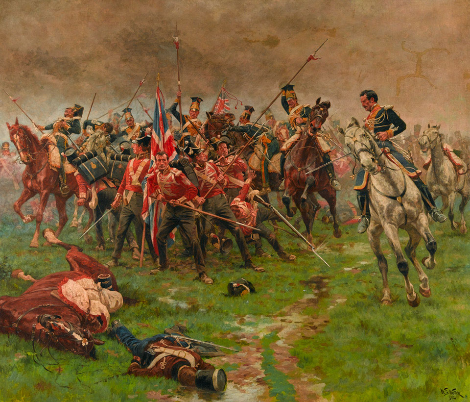 This work depicts a scene from the Battle of Albuera on 16 May 1811. Fought during the Peninsular War (1808-1814), the engagement saw the 3rd (East Kent) Regiment of Foot (The Buffs) deployed with Major-General John Colborne's 1st Brigade. They sustained heavy casualties after being surrounded by Polish and French lancers.